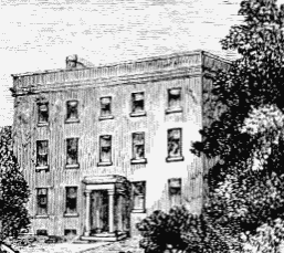 Fleetwood House, Stoke Newington near London, as in 1750.